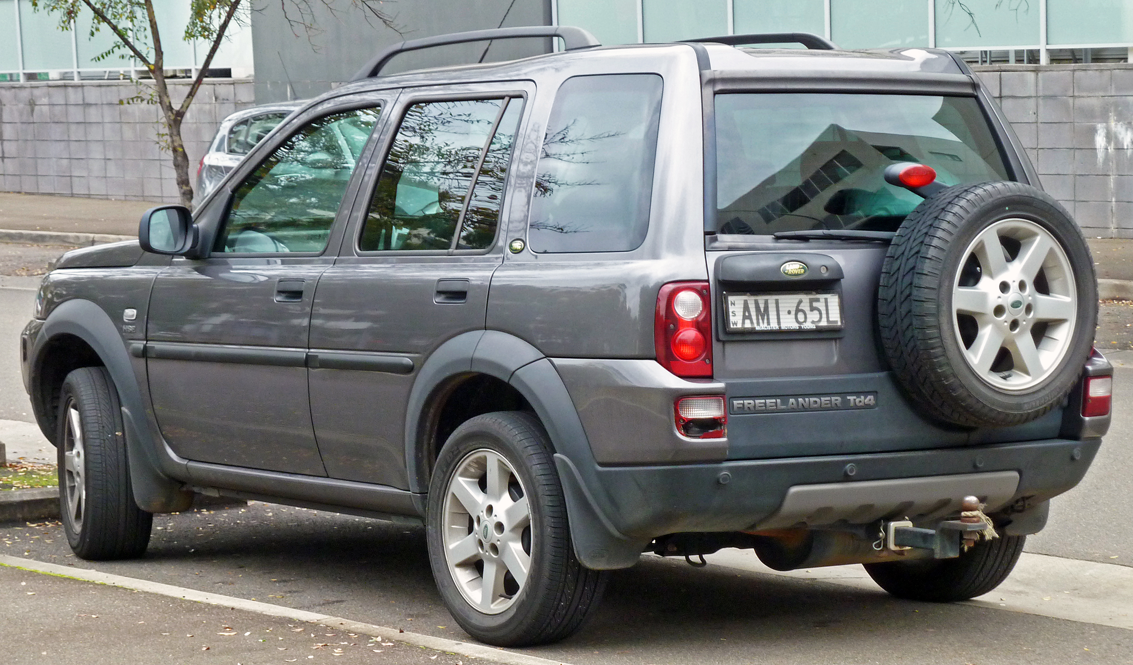 2005 Land Rover Freelander HSE td4 wagon. Photographed in Zetland, New South Wales, Australia.